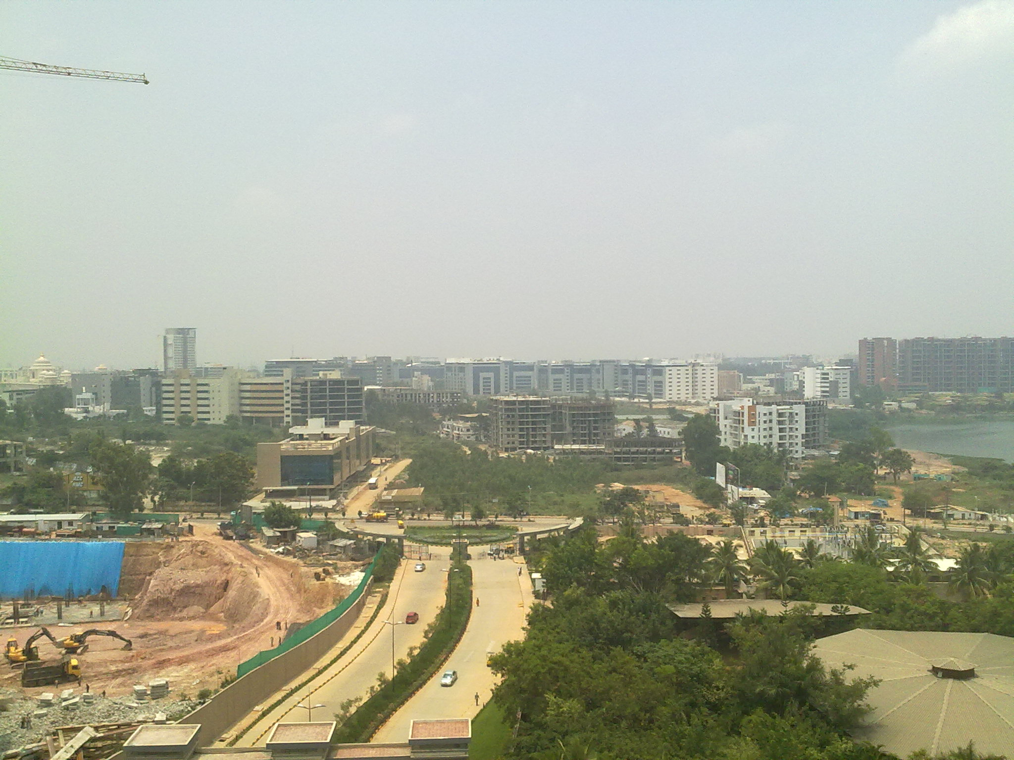 A View of EPIP, Whitefield